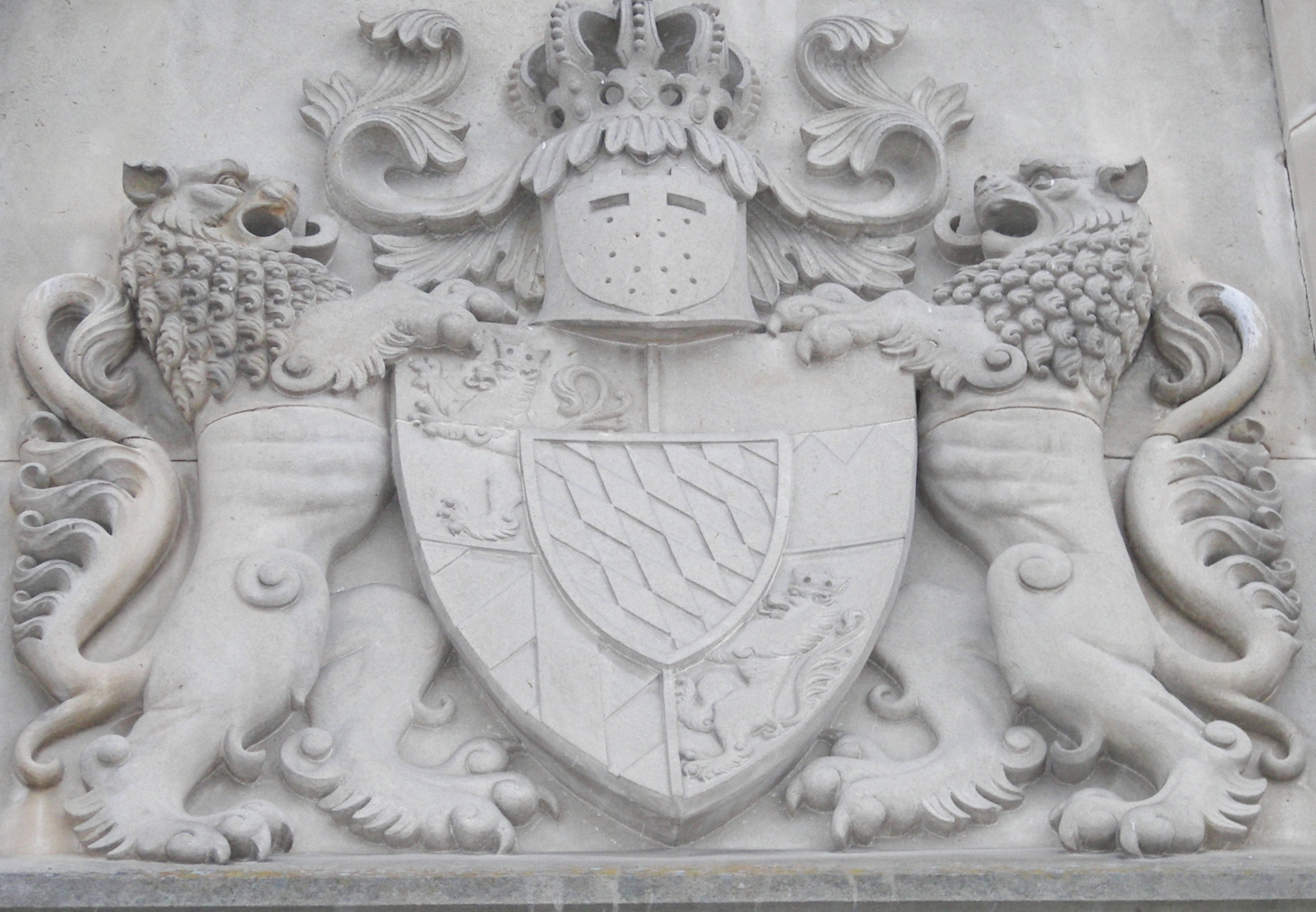 The coat of arms of Ludwig II of Bavaria as carved over the entrance to Neuschwanstein Castle. This is a picture of the crest on Neuschwansteins front gate.